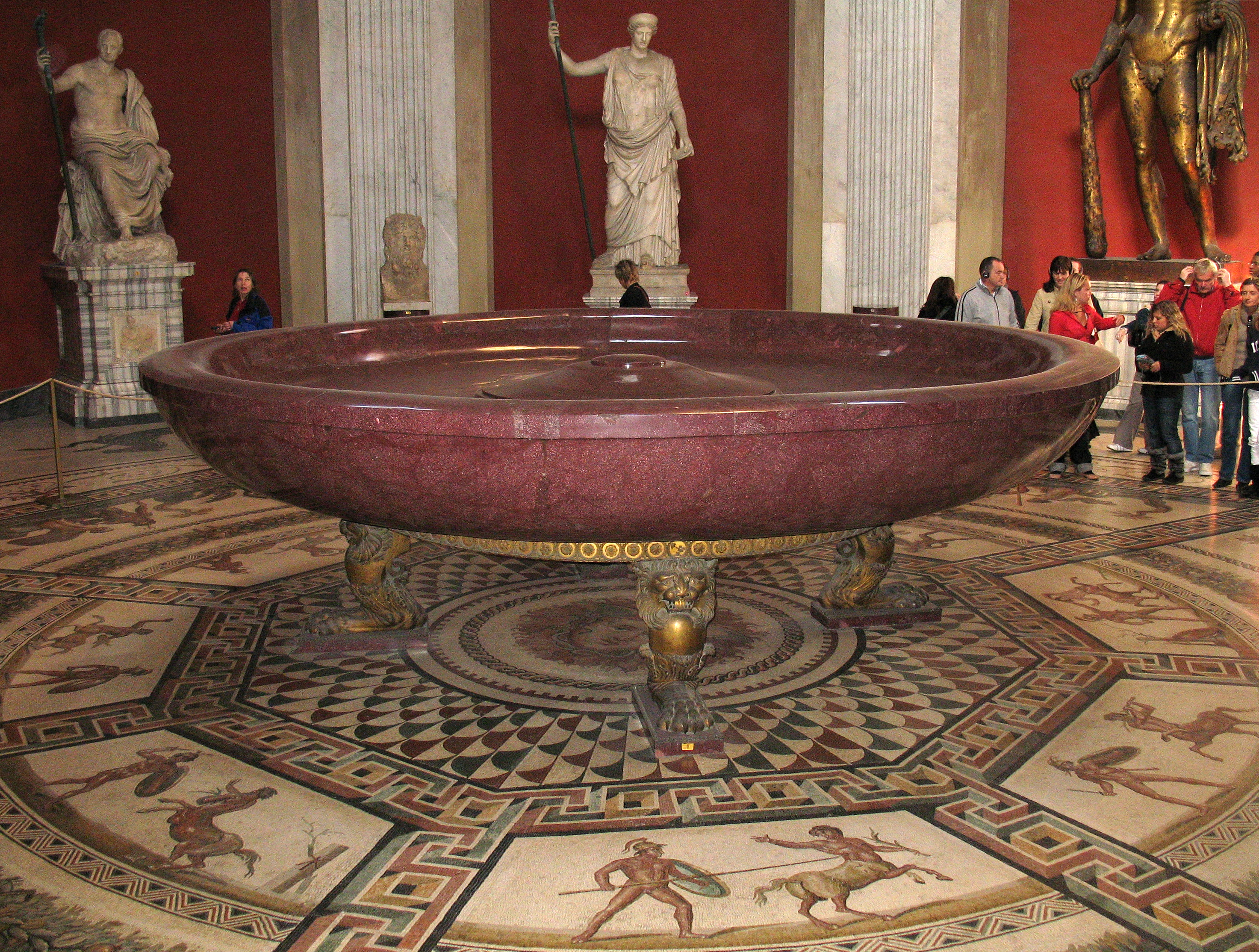 Giant porphyry plate in the Vatican Museums